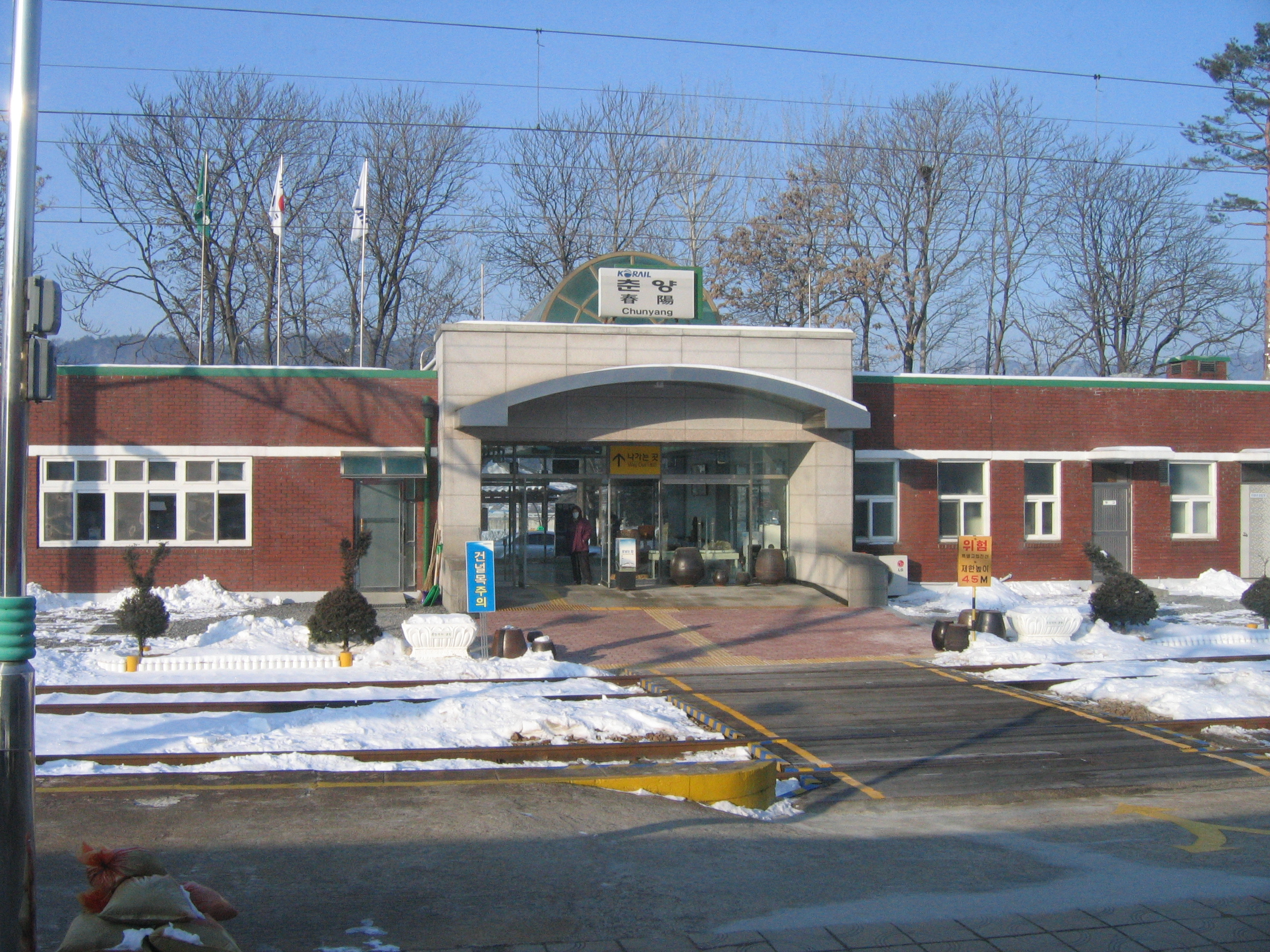 Korail Chunyang station building.